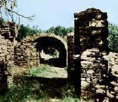 Ruins of the Ancient city of Amud, Somalia (colorized).